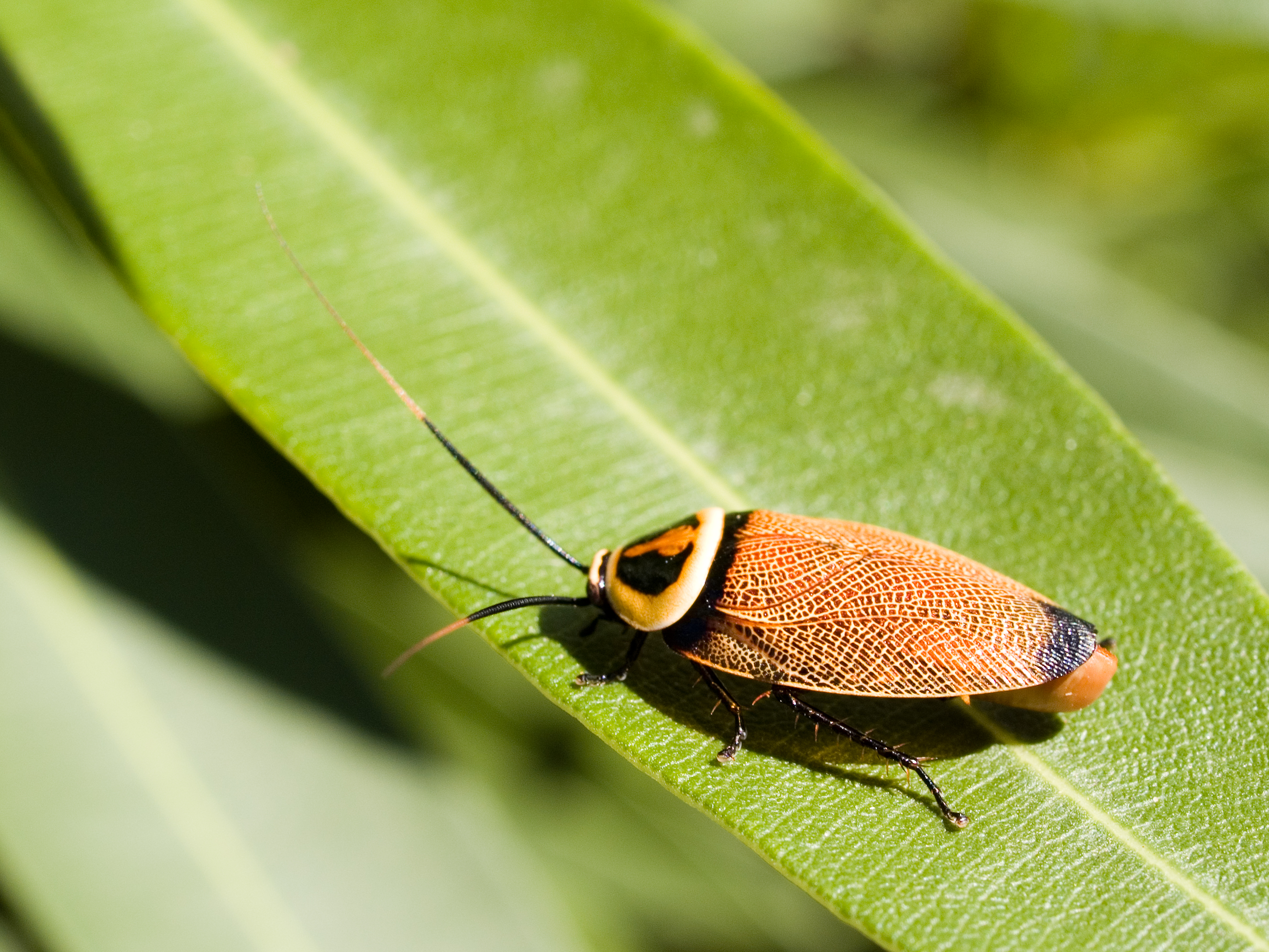 Photo of a cockroach.